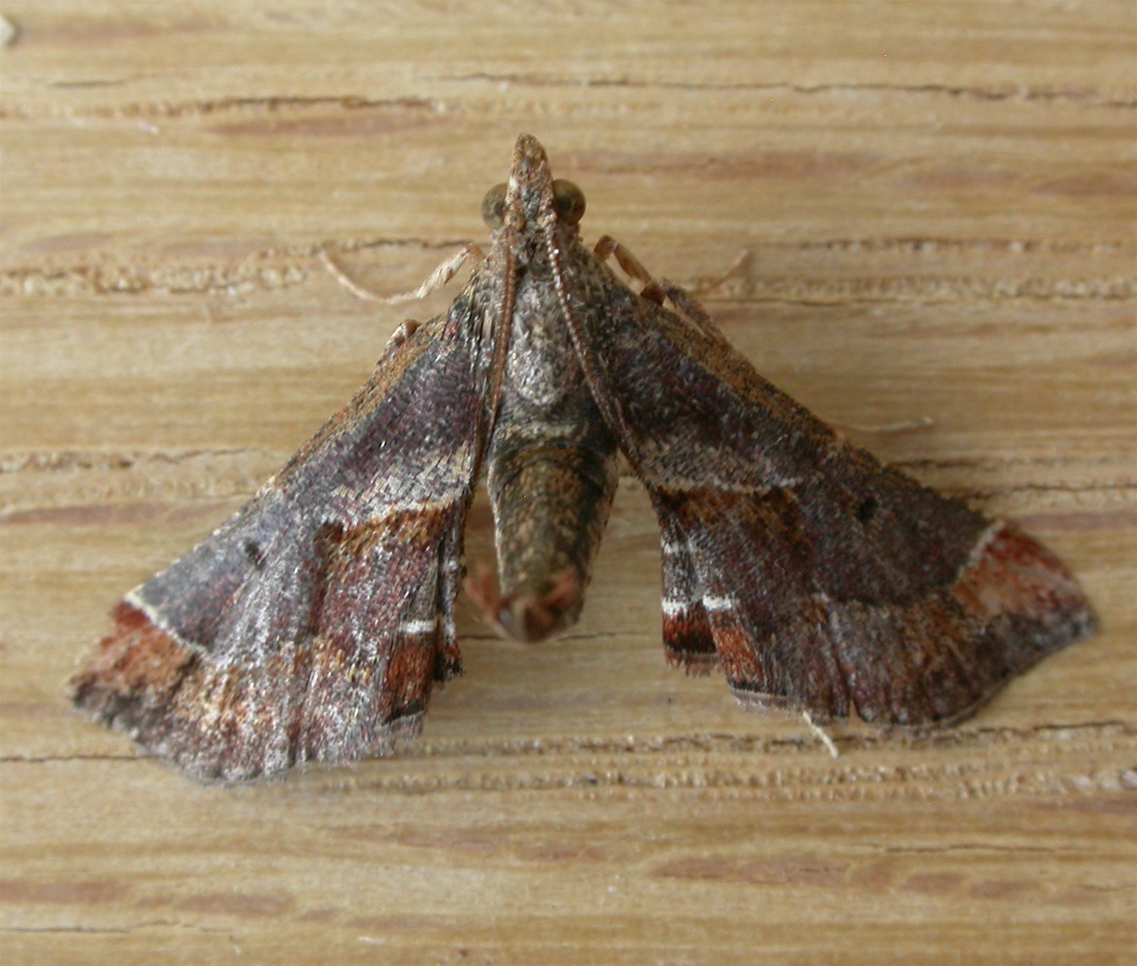 Gauna aegusalis (Walker, 1858), to MV light, Aranda, ACT, 15/16 December 2008